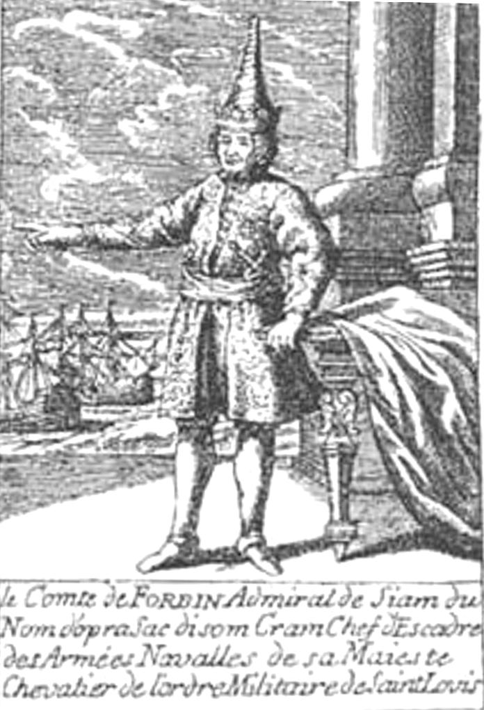 Chevalier Claude de Forbin in the costume of a grand admiral of Siam.